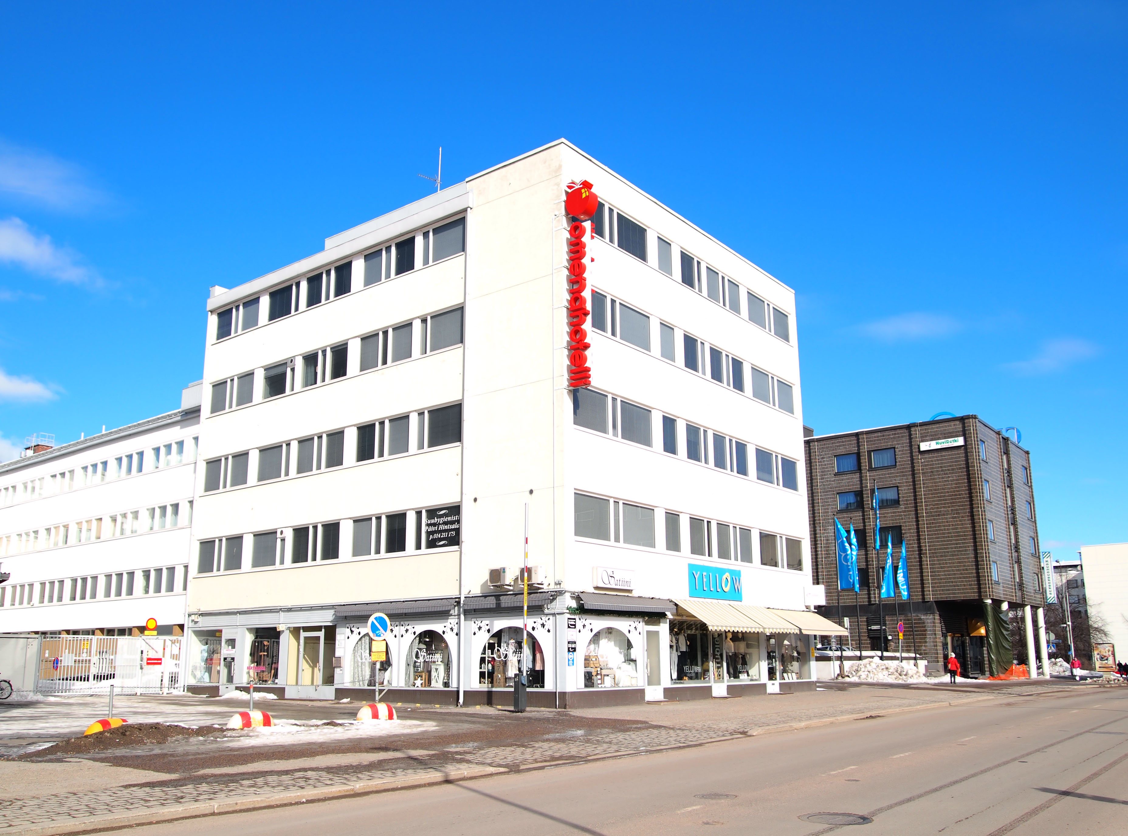 Omenahotelli in Jyväskylä. This photograph was taken with an Olympus E-PL1